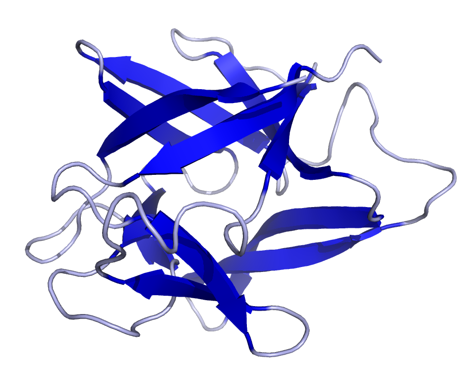 Crystal structure of IL-1b as published in the Protein Data Bank (PDB: 2MIB)